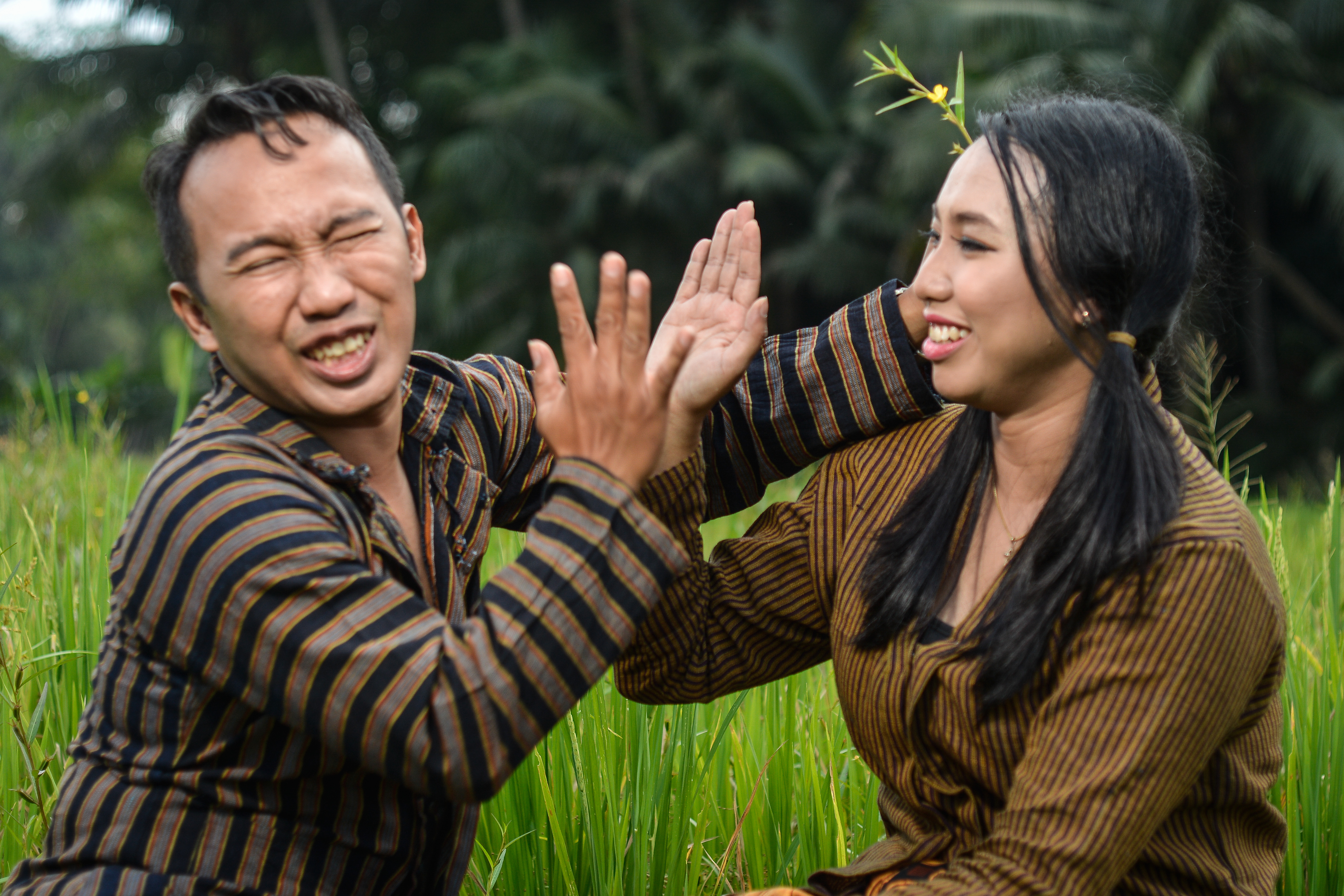 Traditional javanese couple jokes in the paddy field This photo has been taken in the country: Indonesia